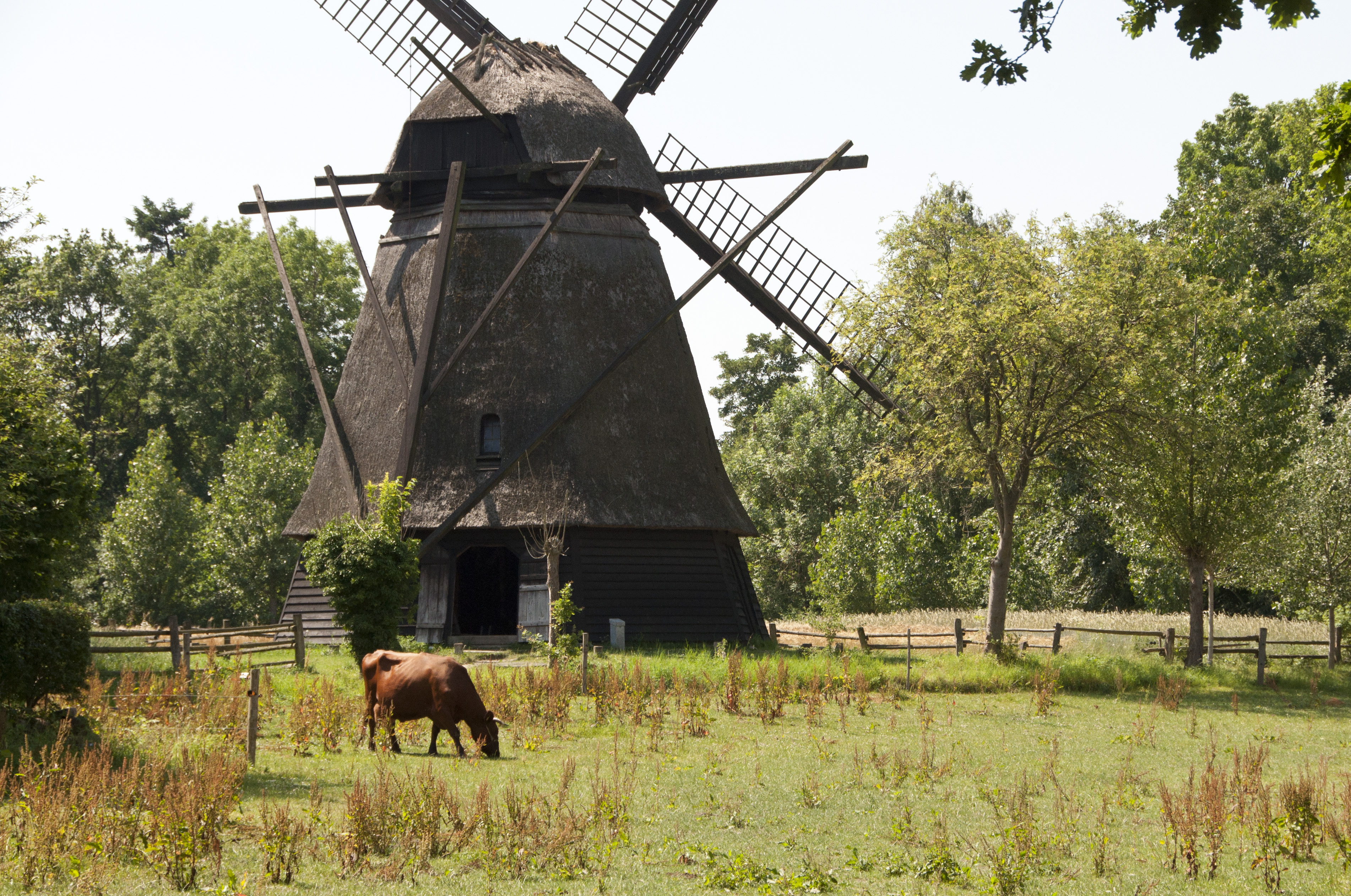 Maderup Mølle, originally in Maderup, 10 km from Bogense but now in the Funen Village open air museum in Odense, Denmark.